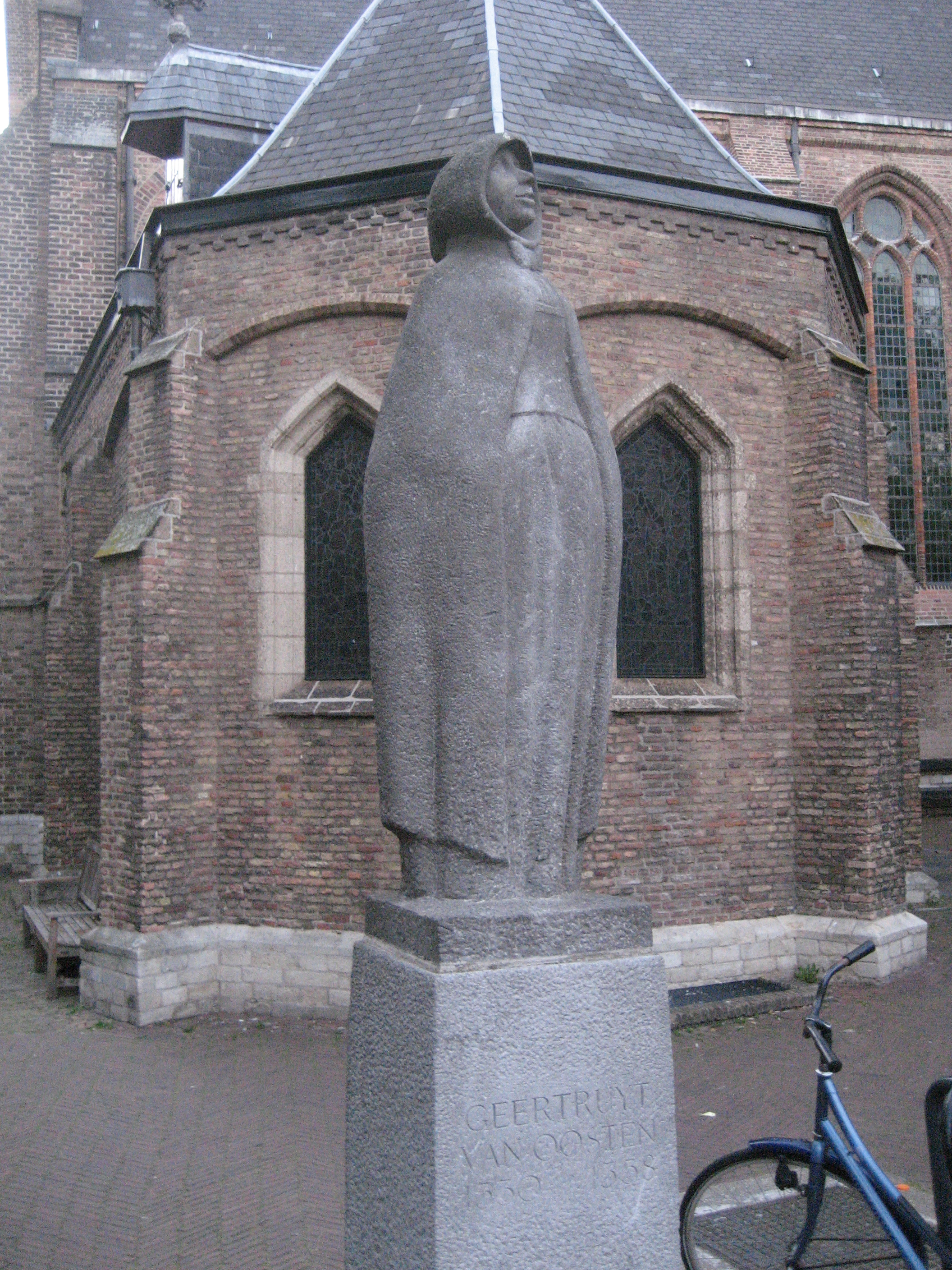 Statue of Geertrui van Oosten (1330-1358) by Arie Teeuwisse. Near Oude Kerk, Delft (The Netherlands)